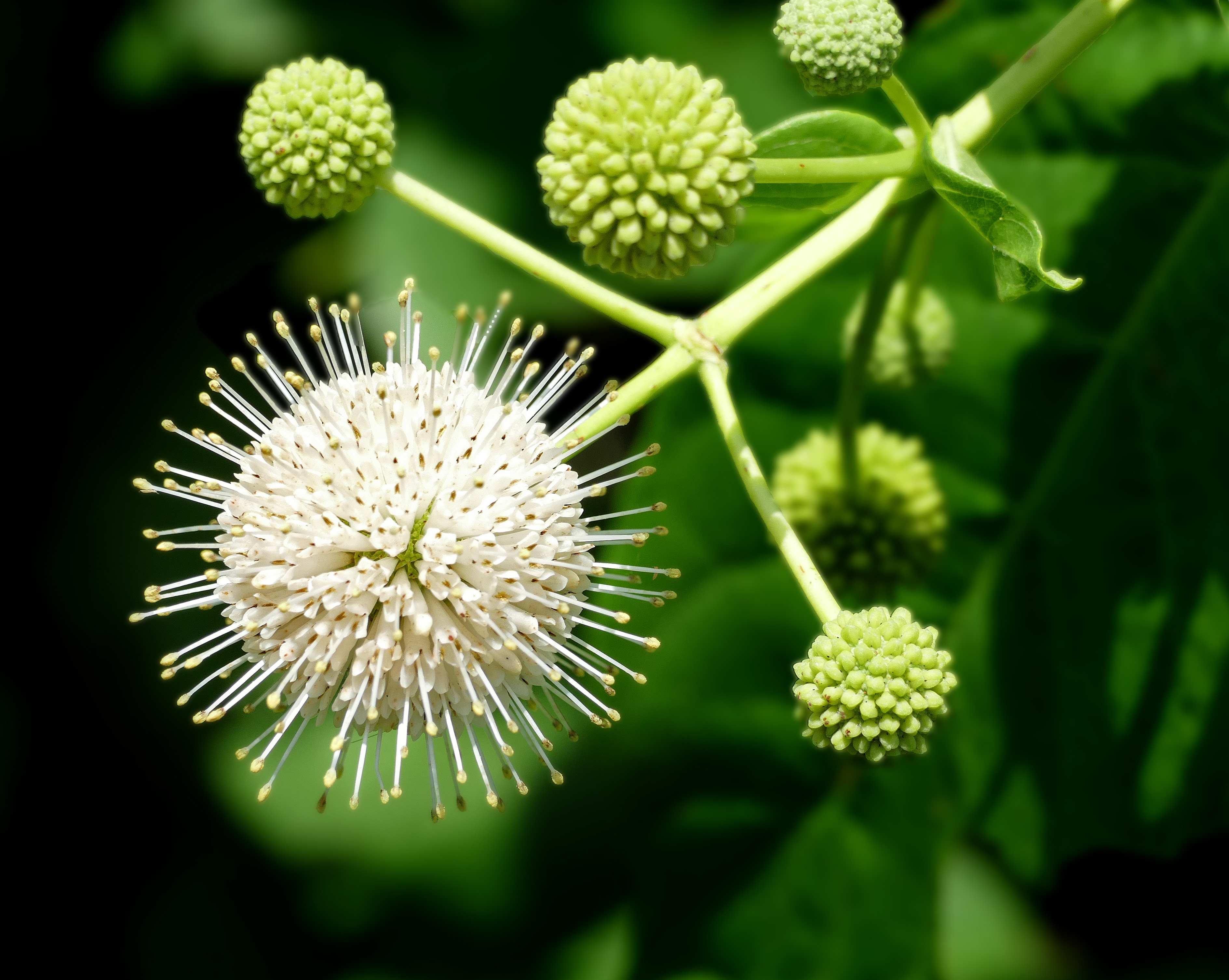 Buttonbush -- Cephalanthus occidentalis